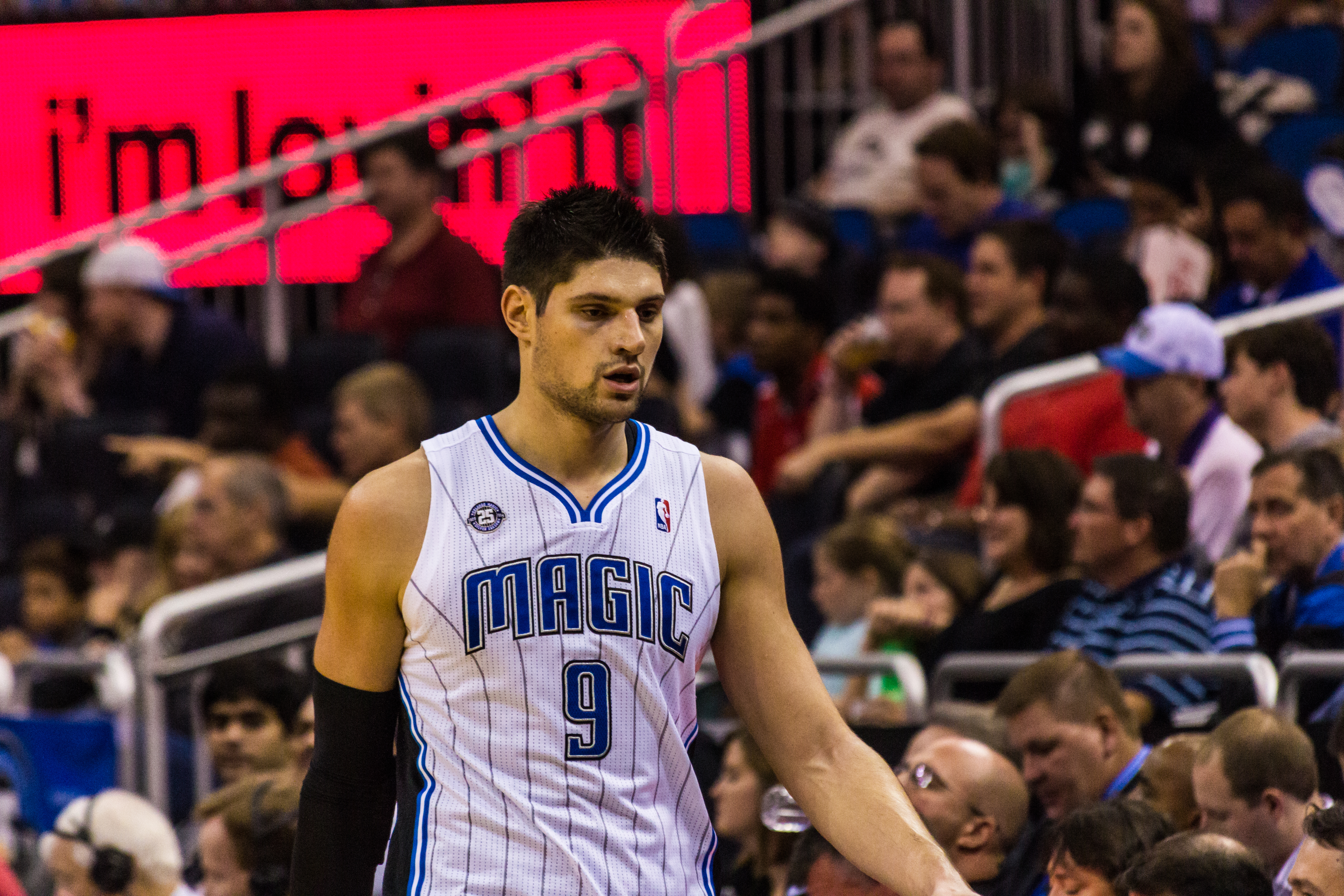 Nikola Vučević of the Orlando Magic